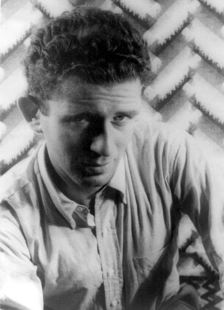 Norman Mailer, 1948